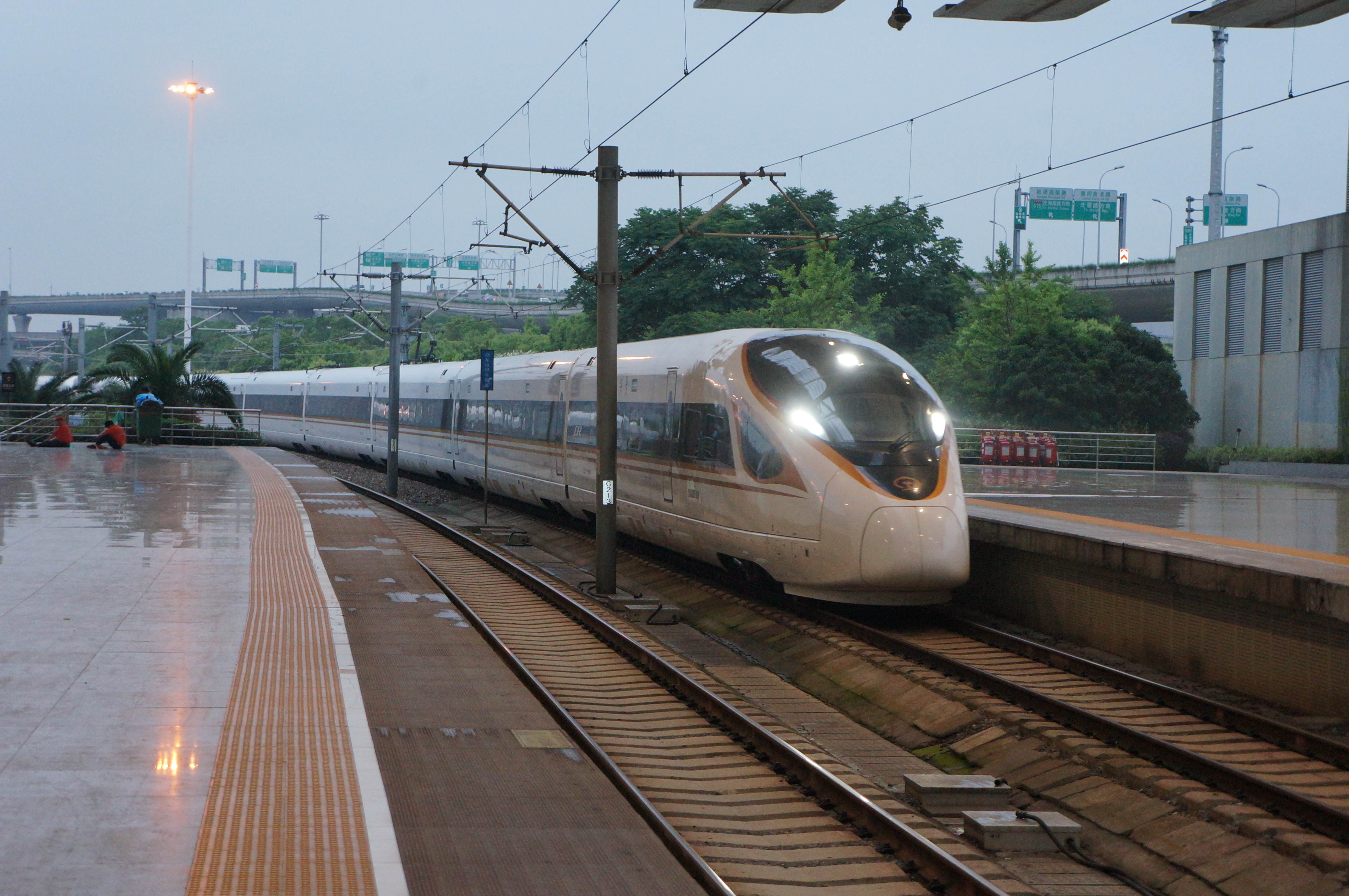 201805 G3 from Beijingnan arrives at Shanghai Hongqiao Station